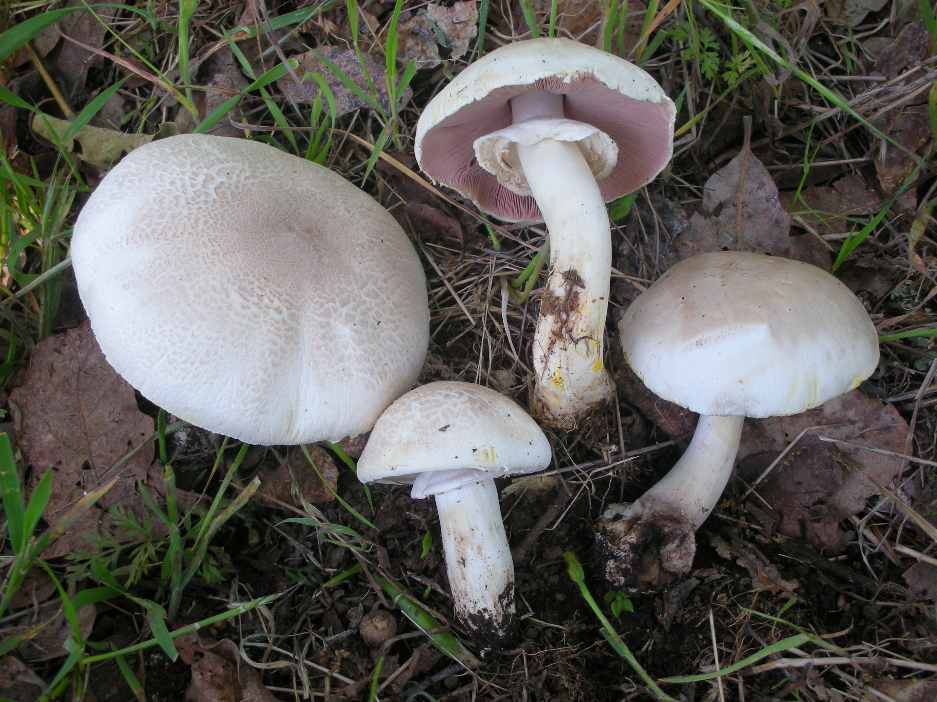 Agaricus xanthodermus Genev.